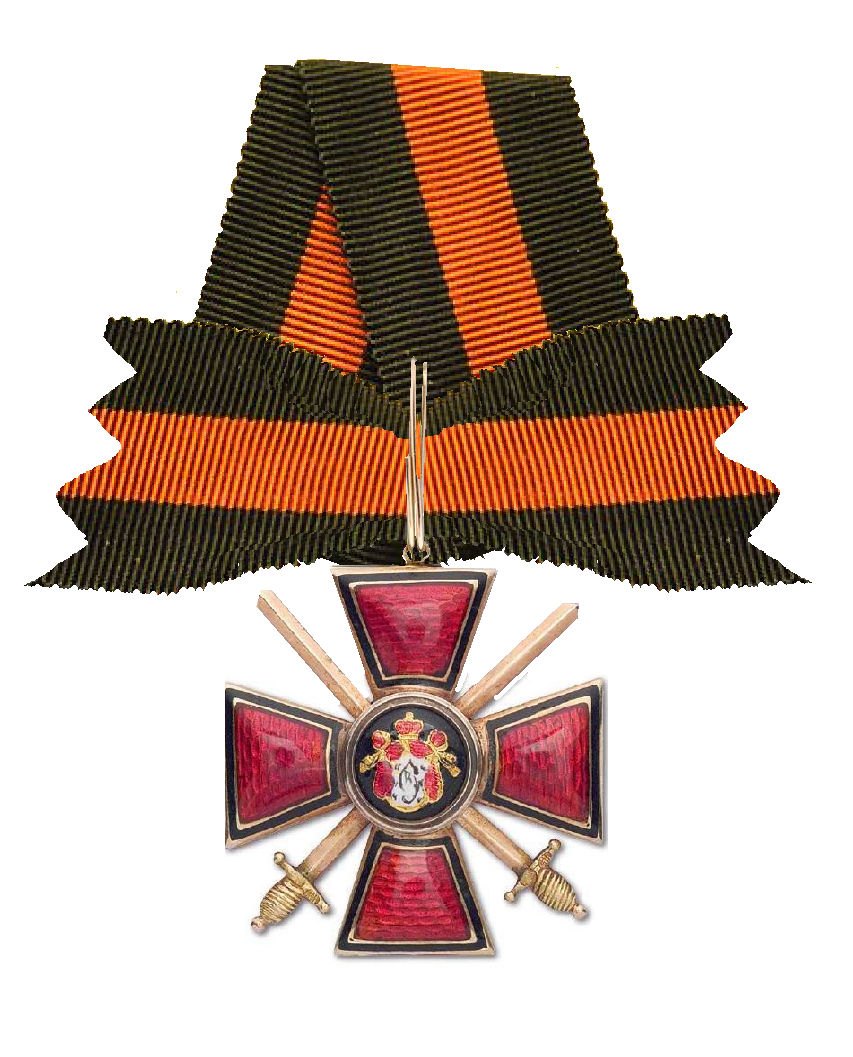 Order of St. Vladimir with swords and sash